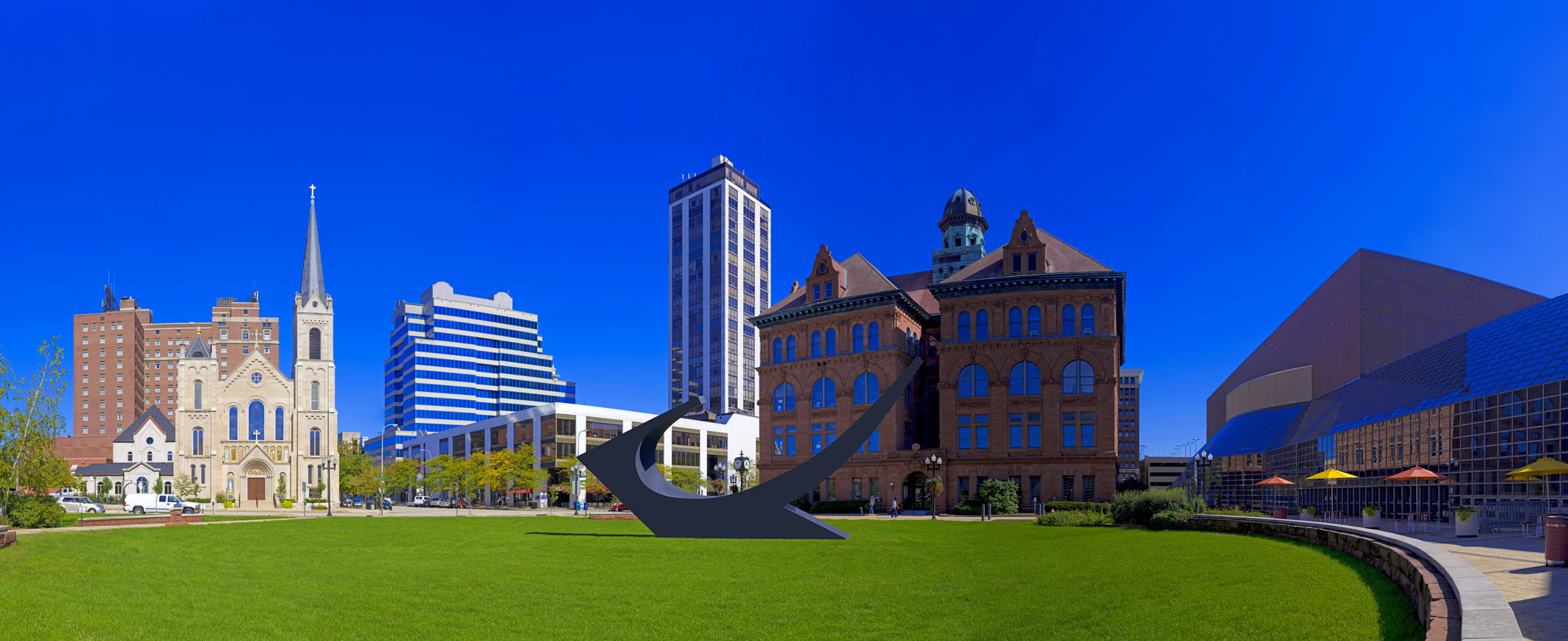 Peoria Civic Center, Peoria City Hall, Peoria's Twin Towers, Peoria, Illinois, USA. Towards Fulton Street, left to right: Hotel Père Marquette (back), Sacred Heart Rectory and Church (fore), Madison Avenue, Becker Building (back), Twin Towers Plaza (fore), Twin Towers west tower (back), Sonar Tide sculpture (fore), Peoria City Hall (middle); towards Jefferson Street (hidden), left to right: Civic Center Plaza (far back), Niagara parking deck (far back), Peoria Civic Center.